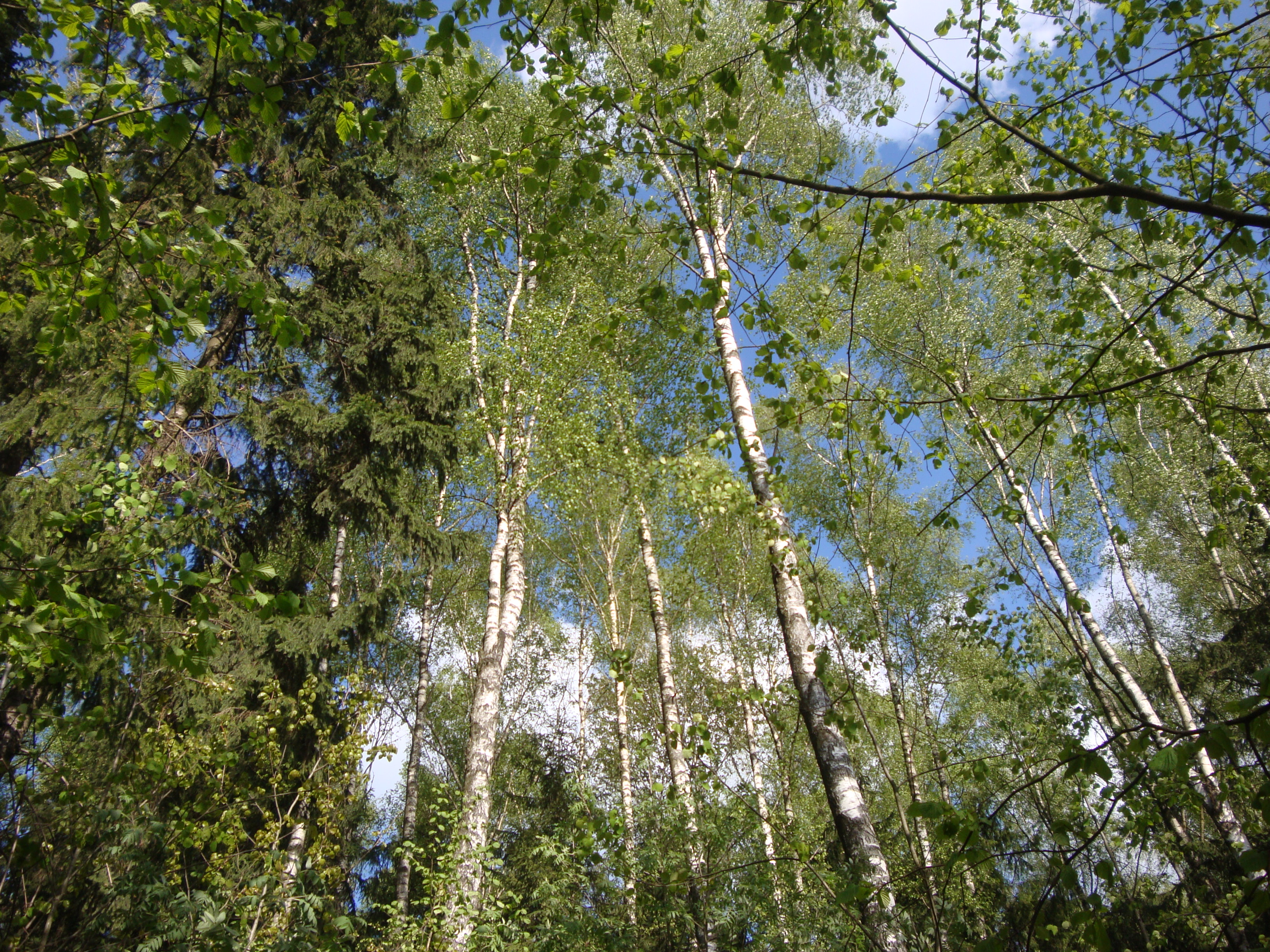 Trees in Minsk city (Belarus) near Drozdy water reservoir, 2014 AD